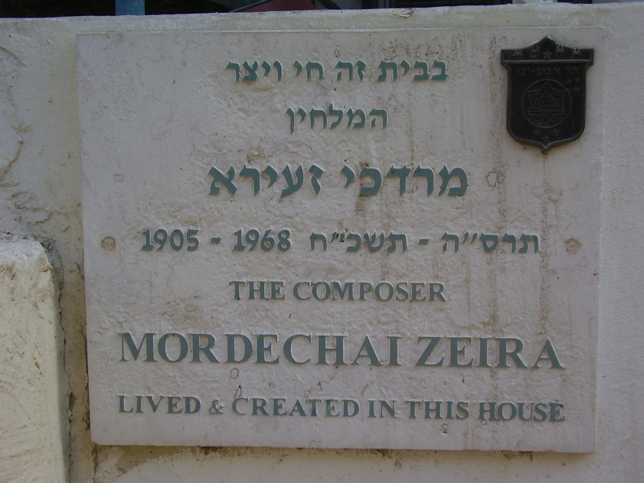 memorial plaque on the house of the composer mordechai zeira in tel aviv לוחית זיכרון על ביתו של המלחין מרדכי זעירא ברח' הירדן 15 בתל אביב